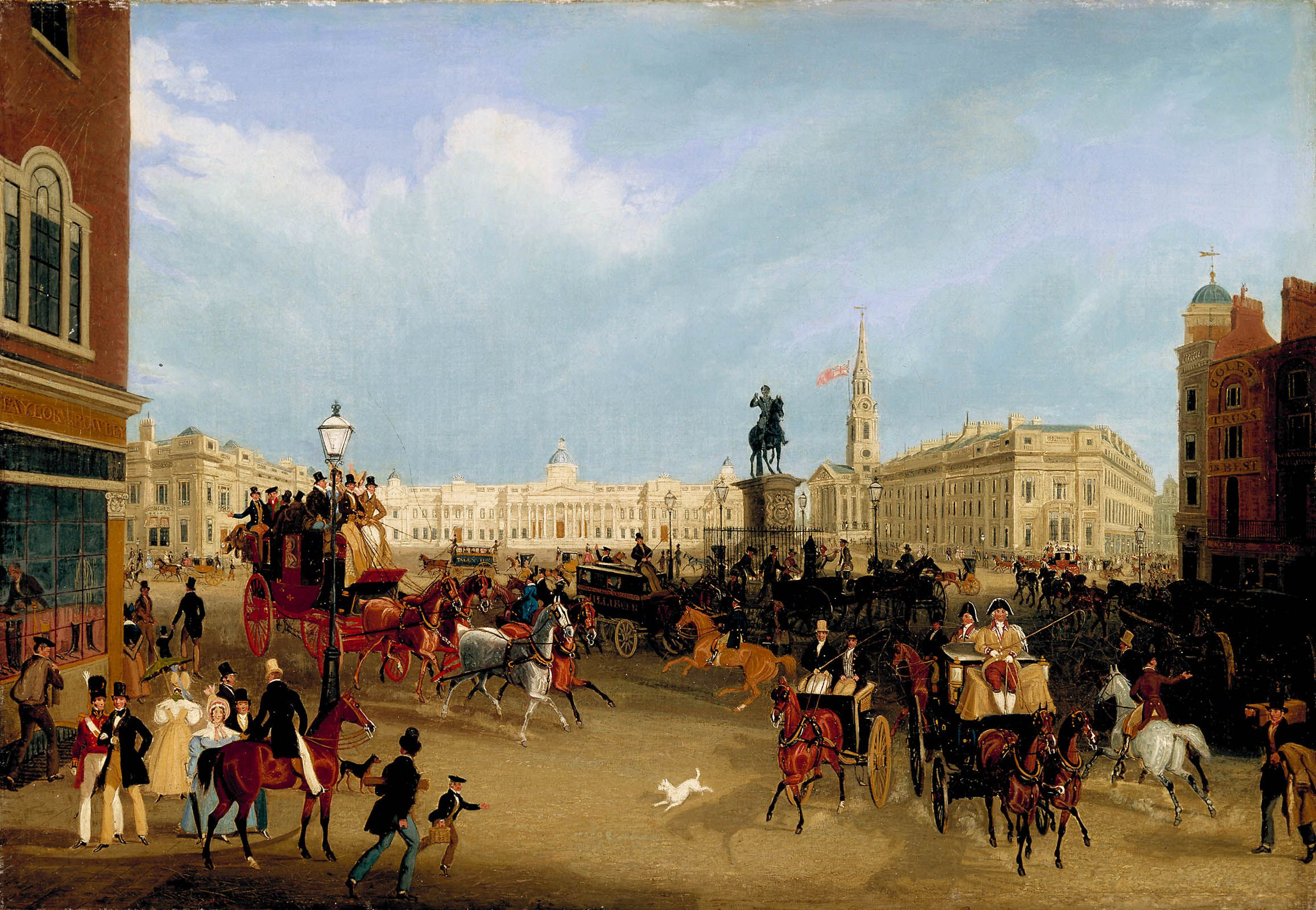 Trafalgar Square. Oil on Canvas. Signed and indistinctly dated. 21 1/4 x 30 1/2 in (54 x 77.5 cm).